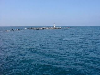 Fatsa